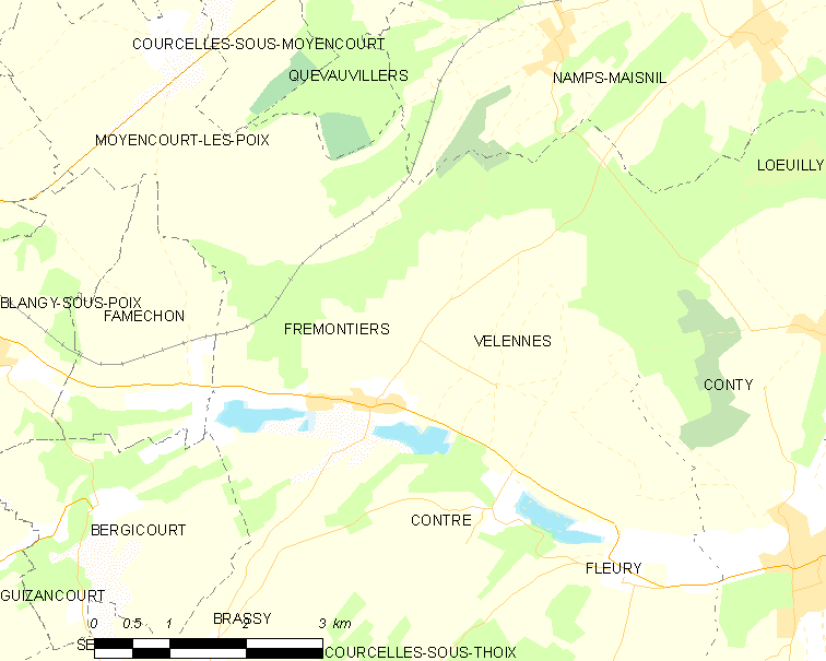 Map of French municipality Frémontiers